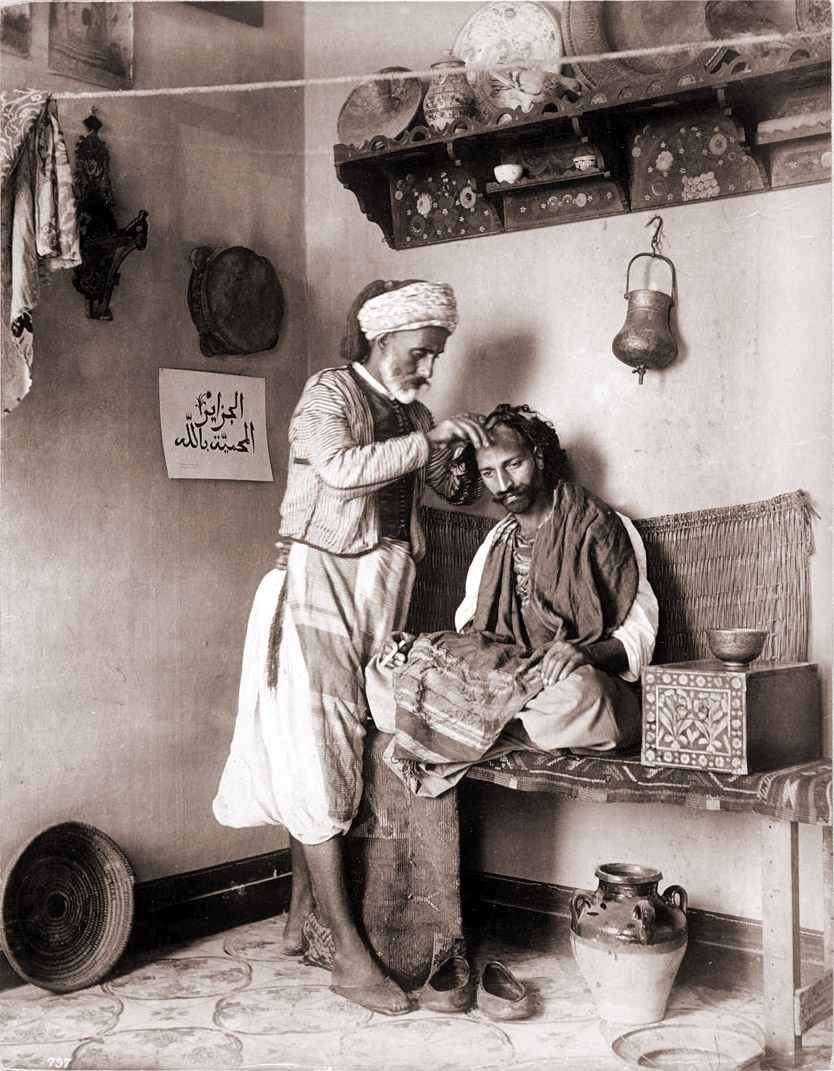 BPLDC no.: 08_04_000362 Page Title: Barber Collection: Tupper Scrapbooks Collection Album: Volume 1: Algeria. Call no.: 4098B.104 v1 (p. 38) Creator: Tupper, William Vaughn Genre: Scrapbooks; Albumen prints Extent: 1 photographic print mounted on page : albumen ; page 33 x 39 cm. Description: Scrapbook page contains one photograph showing a barber cutting the hair of an Arab man. Notes: Page description supplied by cataloger, derived from captions and/or annotated information. BPL Department: Print Department Rights: No known restrictions. Flickr data on 2011-08-15: Camera: Sinar AG Sinarback 54 FW, Sinar m License: CC BY 2.0 User: Boston Public Library BPL